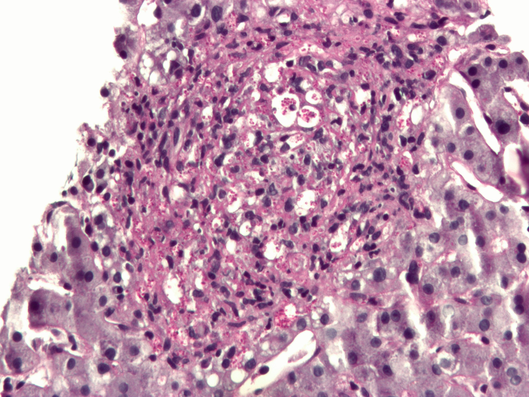 Micrograph showing Histoplasmosis. Histoplasma in a granuloma. Liver biopsy. Periodic acid-Schiff diastase (PAS-D) stain. Histoplasma = clumps of small bright red circles. Granuloma = large red ball with blue (lymphocytes); has big clumps of histoplasma in it. Related images PAS-D. PAS-D. PAS-D. GMS.